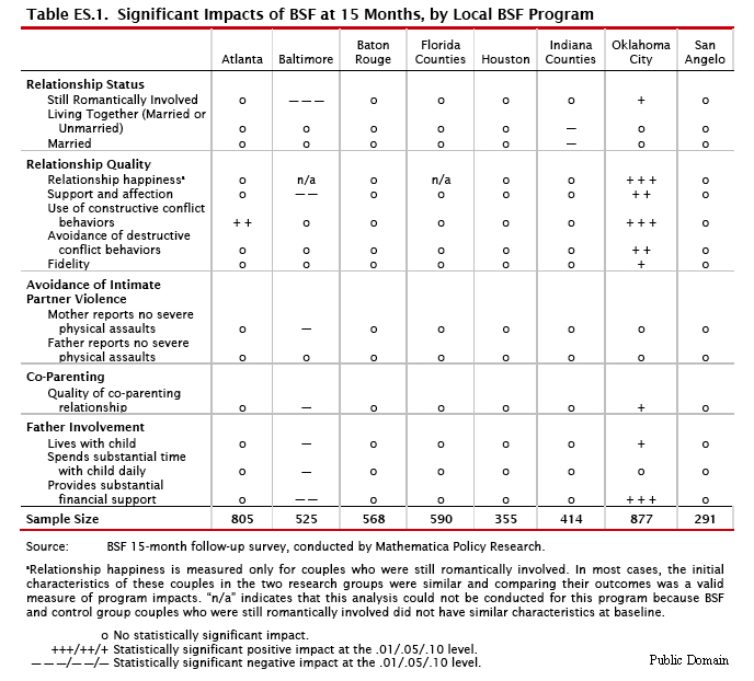 BSF 15-Month Impact Chart, by Location